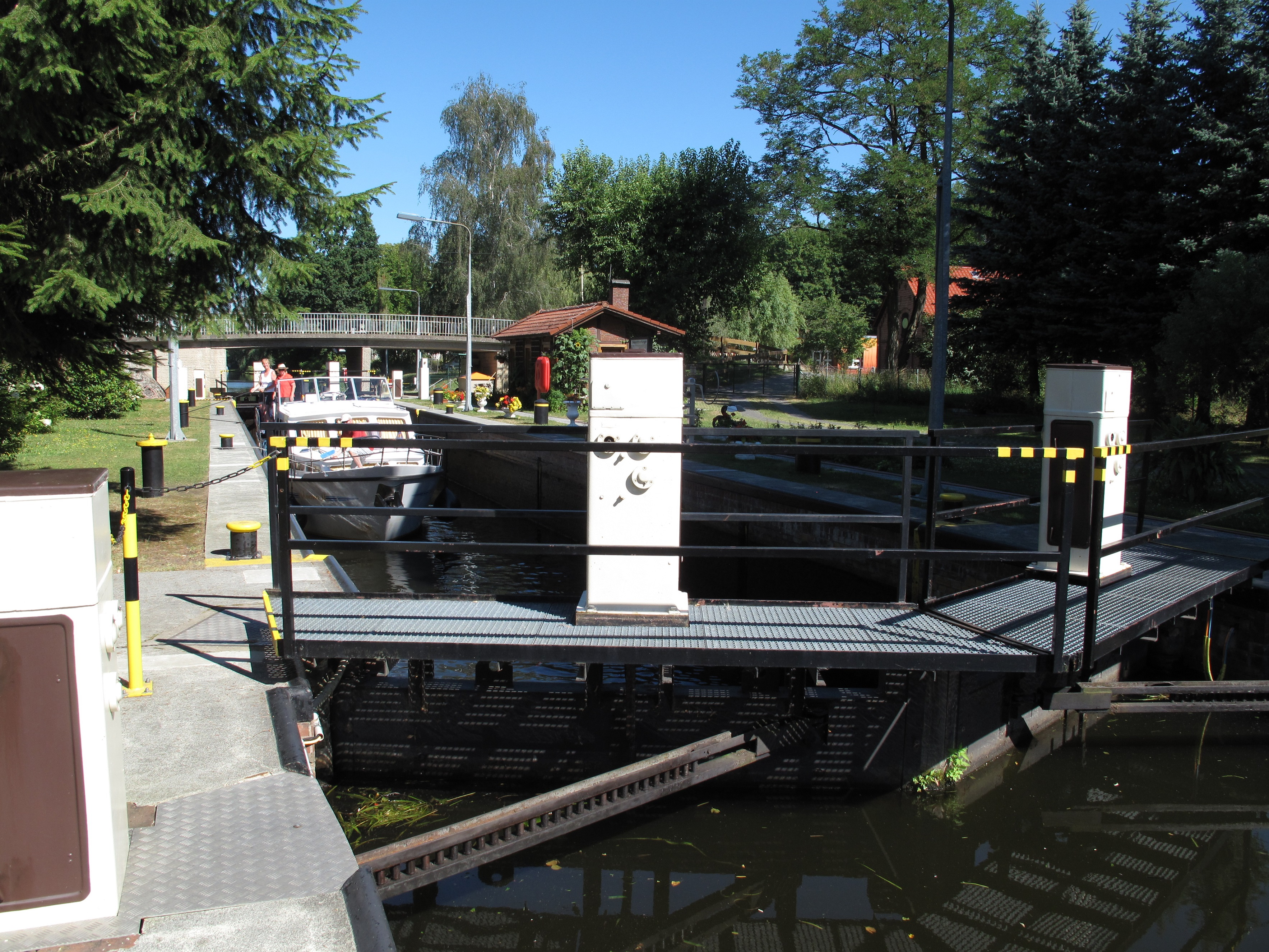 „Schleuse Kummersdorf“, built in 1862, canal lock of the Storkower Kanal. The village Kummersdorf is a part of the town Storkow, District Oder-Spree, Brandenburg, Germany. The village was first mentioned in 1442 and had on January 1, 2013 507 inhabitants. It is situated in the Dahme-Heideseen Nature Park.